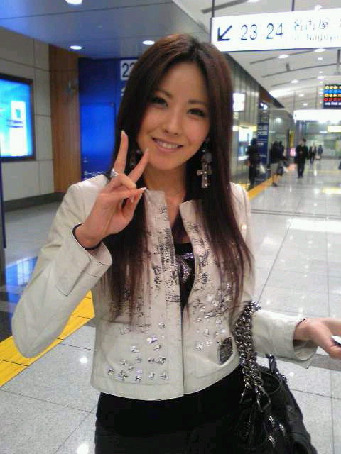 Melody, doing a peace sign